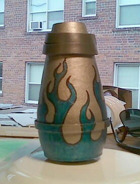 A home-made trumpet practice mute made out of an air freshener and weather stripping. Decorated for no particular reason other than making it not look boring.